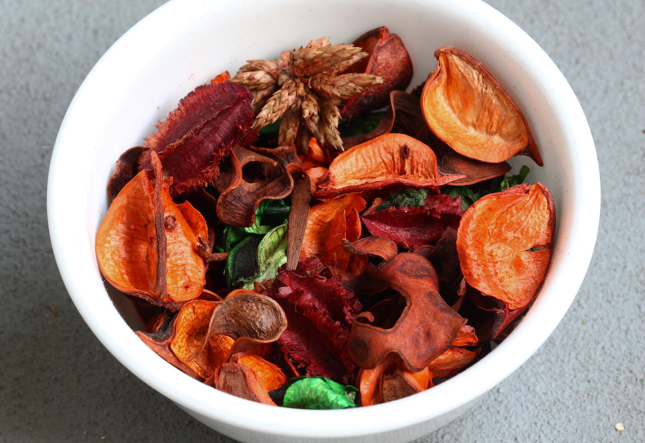 Picture of a potpourri